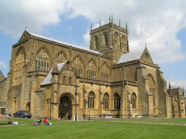 Sherborne Abbey